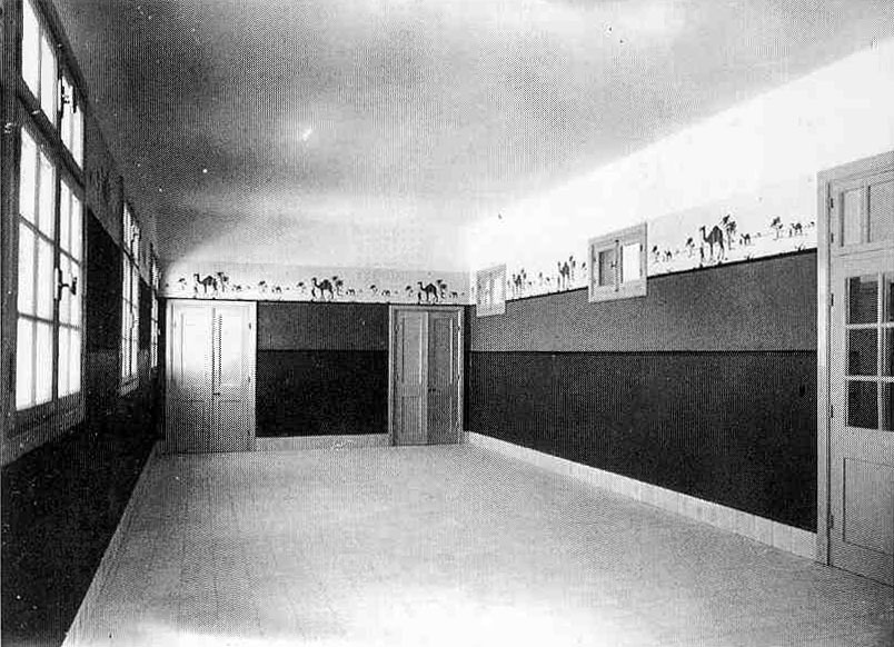 Nathan Strayss health center, late twenties